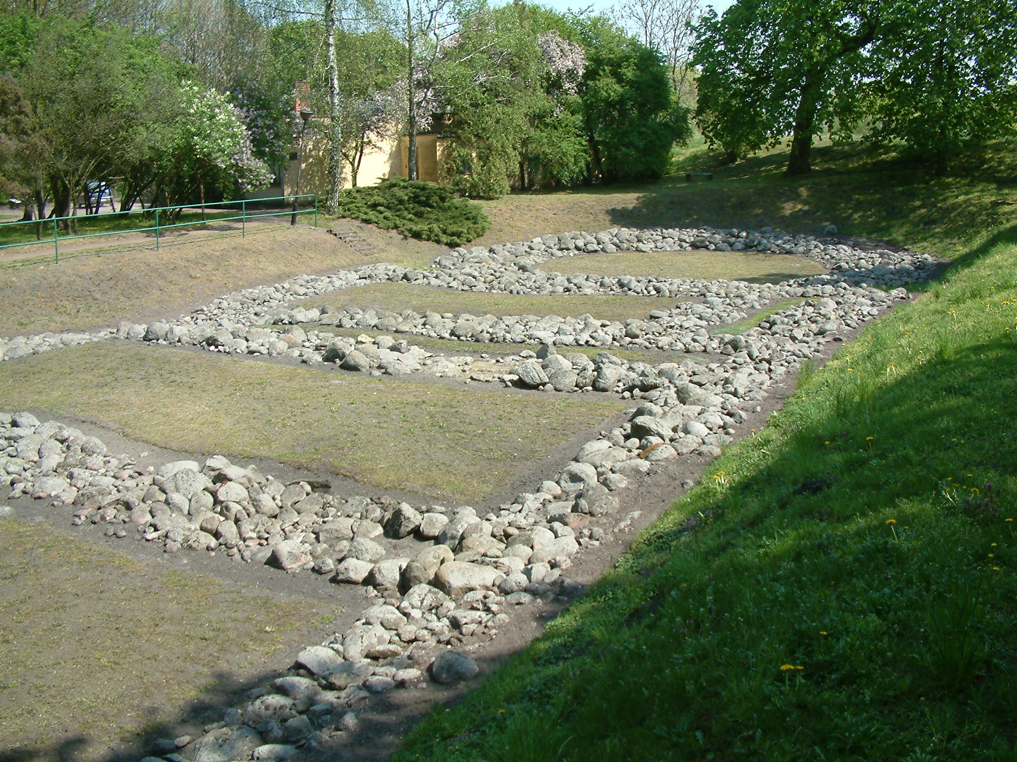 Remains of gród in Giecz